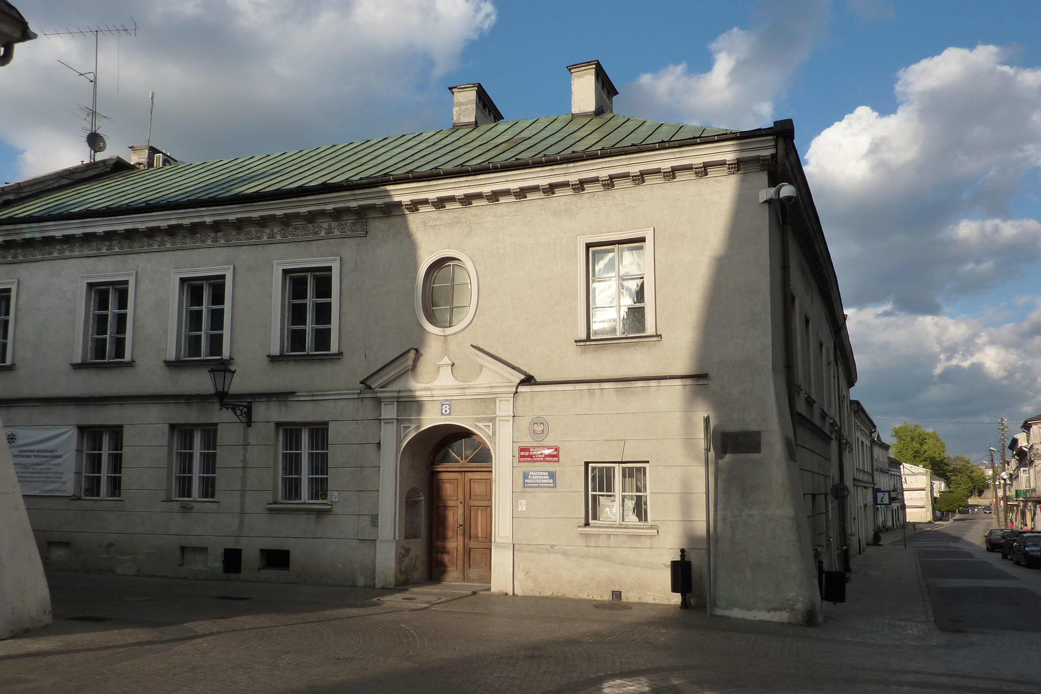 house in Piotrków Trybunalski old town